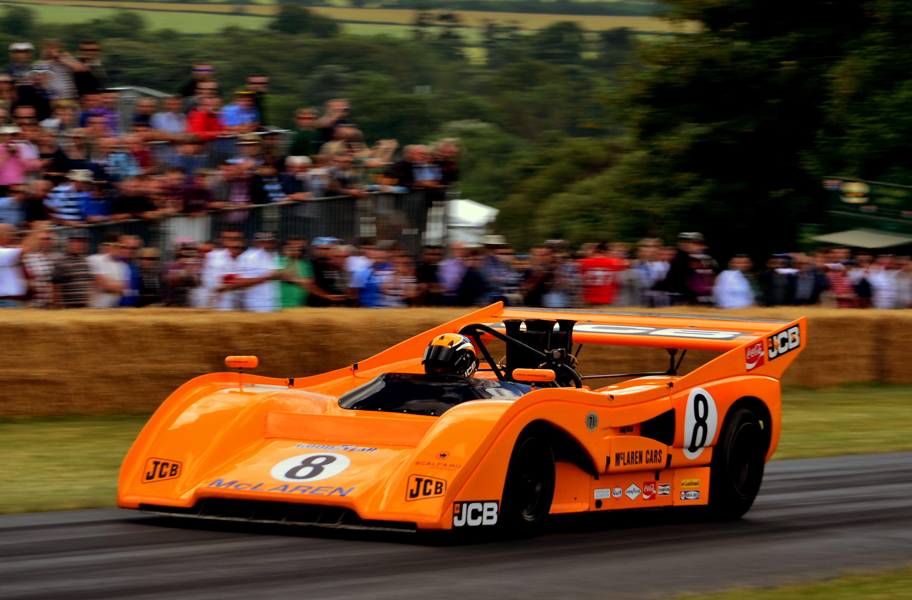 The 1971 McLaren M8F at the 2014 Goodwood Festival of Speed.